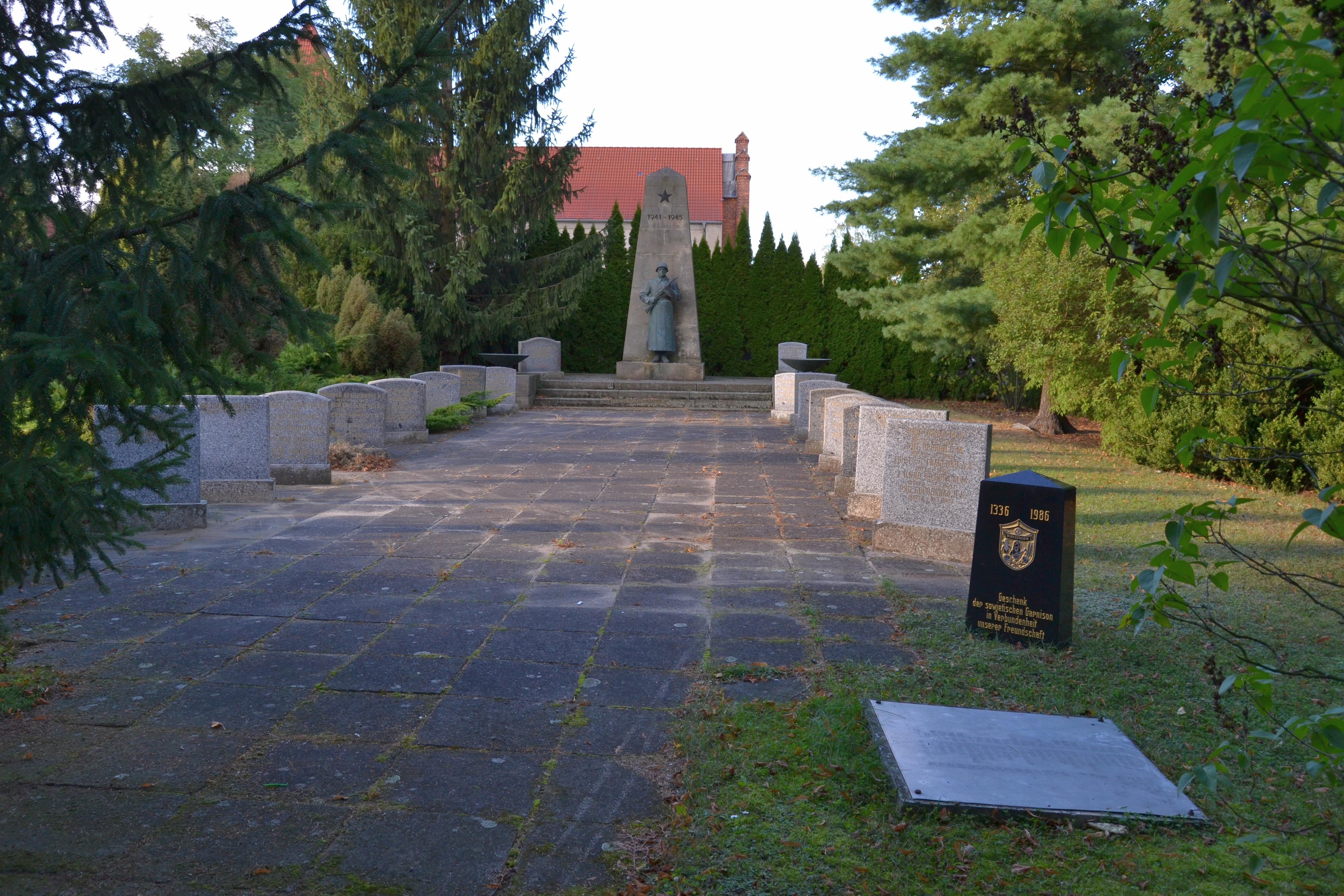 Soviet hohory cemetery in Manschnow.